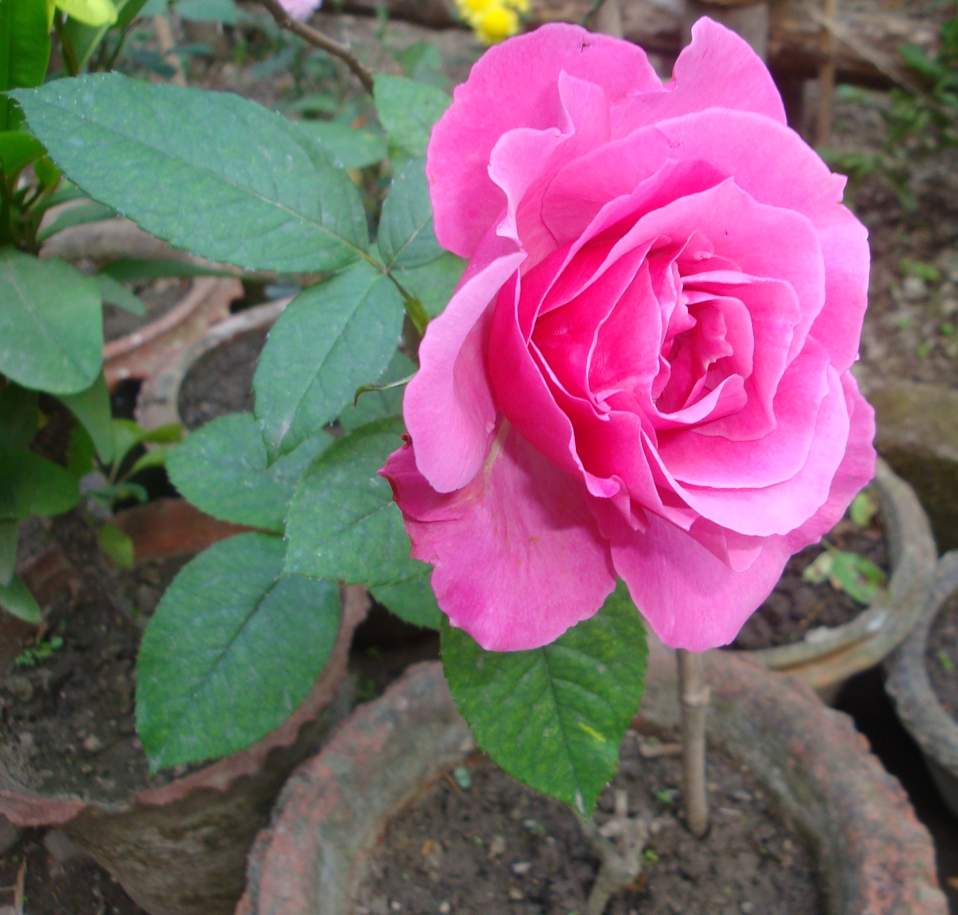 A rose in full bloom